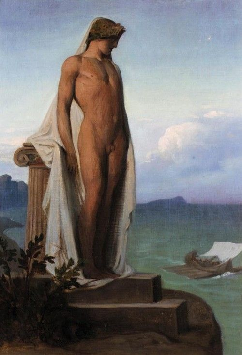 François-Léon Bënouville (1821-1859). The shadow of Achilles appearing to the Greeks.